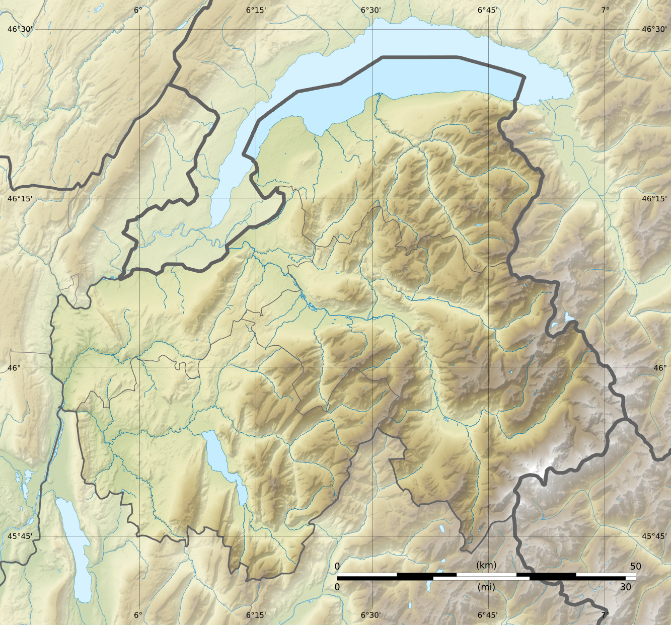 Blank physical map of the municipalities of department of Haute-Savoie, France, for geo-location purpose.